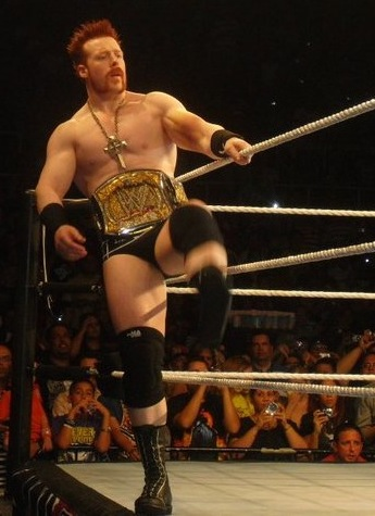 Sheamus